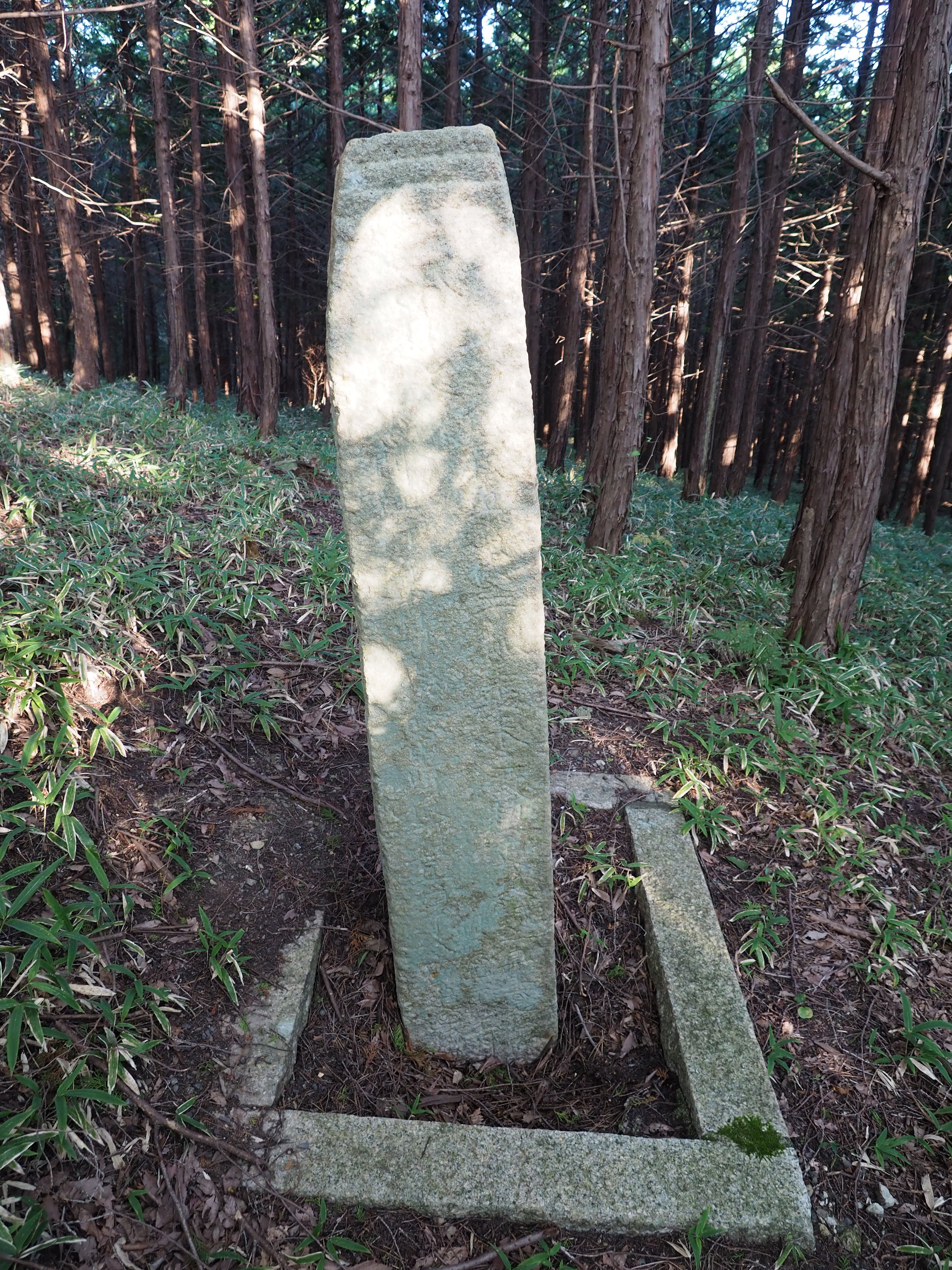 Monument at Sasao Pass between Hino and Tsuchiyama, Shiga, Japan